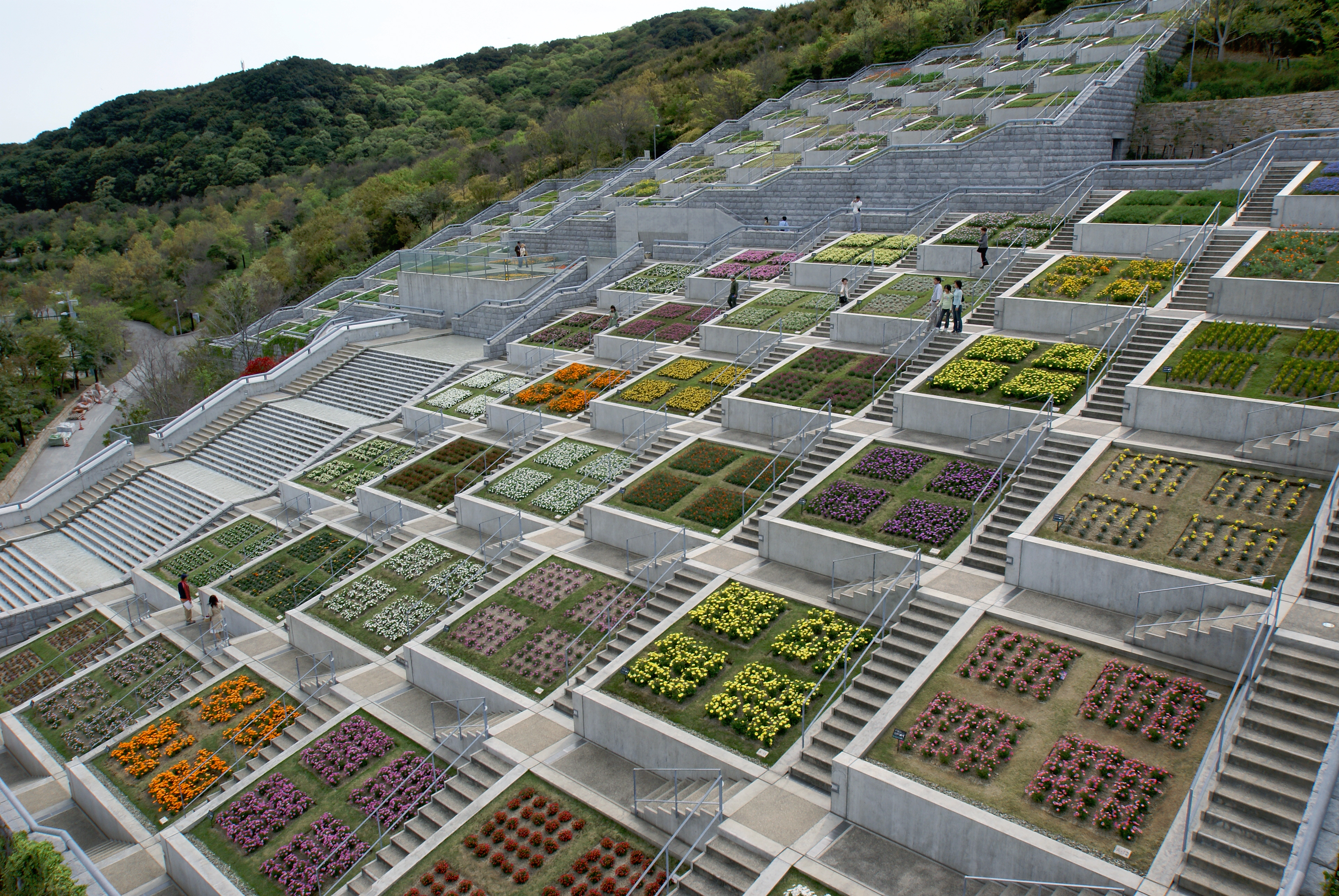 Hyakudanen of Awaji Yumebutai in Awaji, Hyogo prefecture, Japan